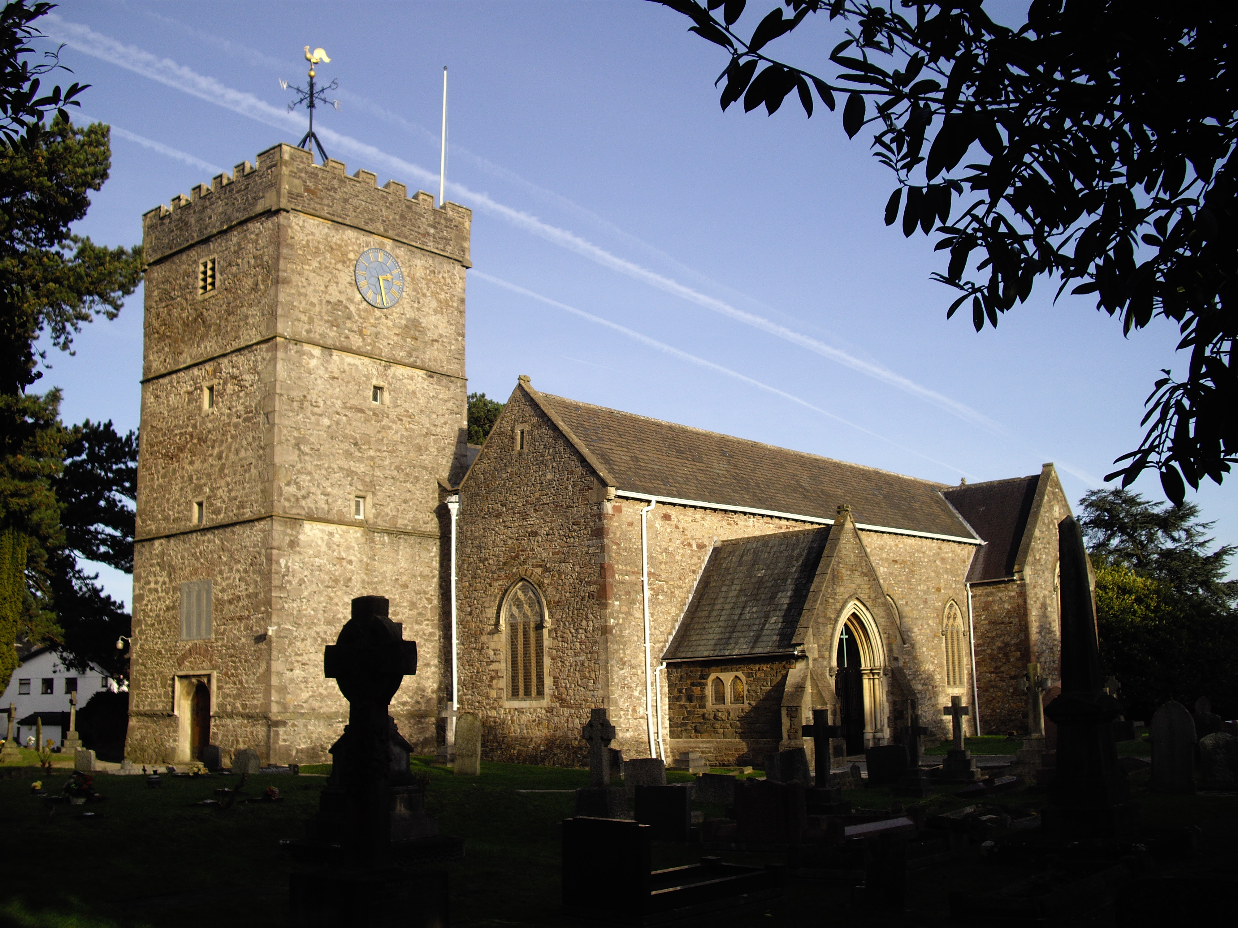 Parish church of St Basil the Great, Bassaleg